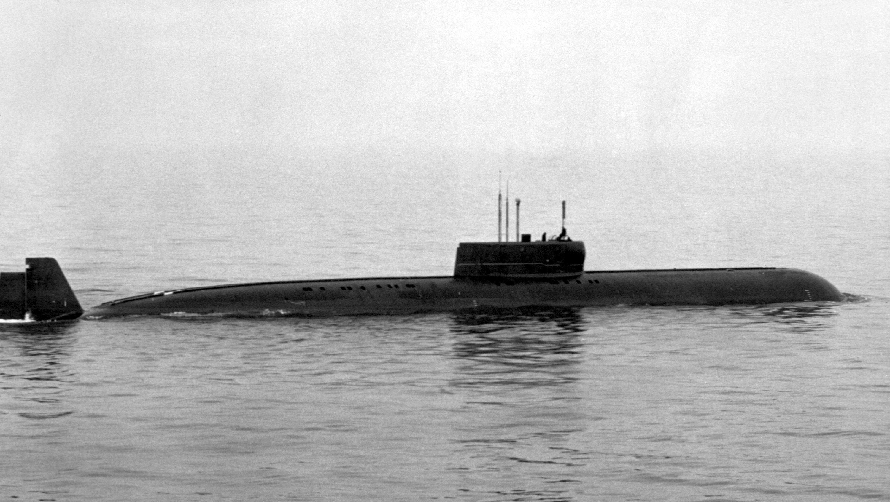 A starboard beam view of a Soviet Papa class nuclear-powered cruise missile submarine.